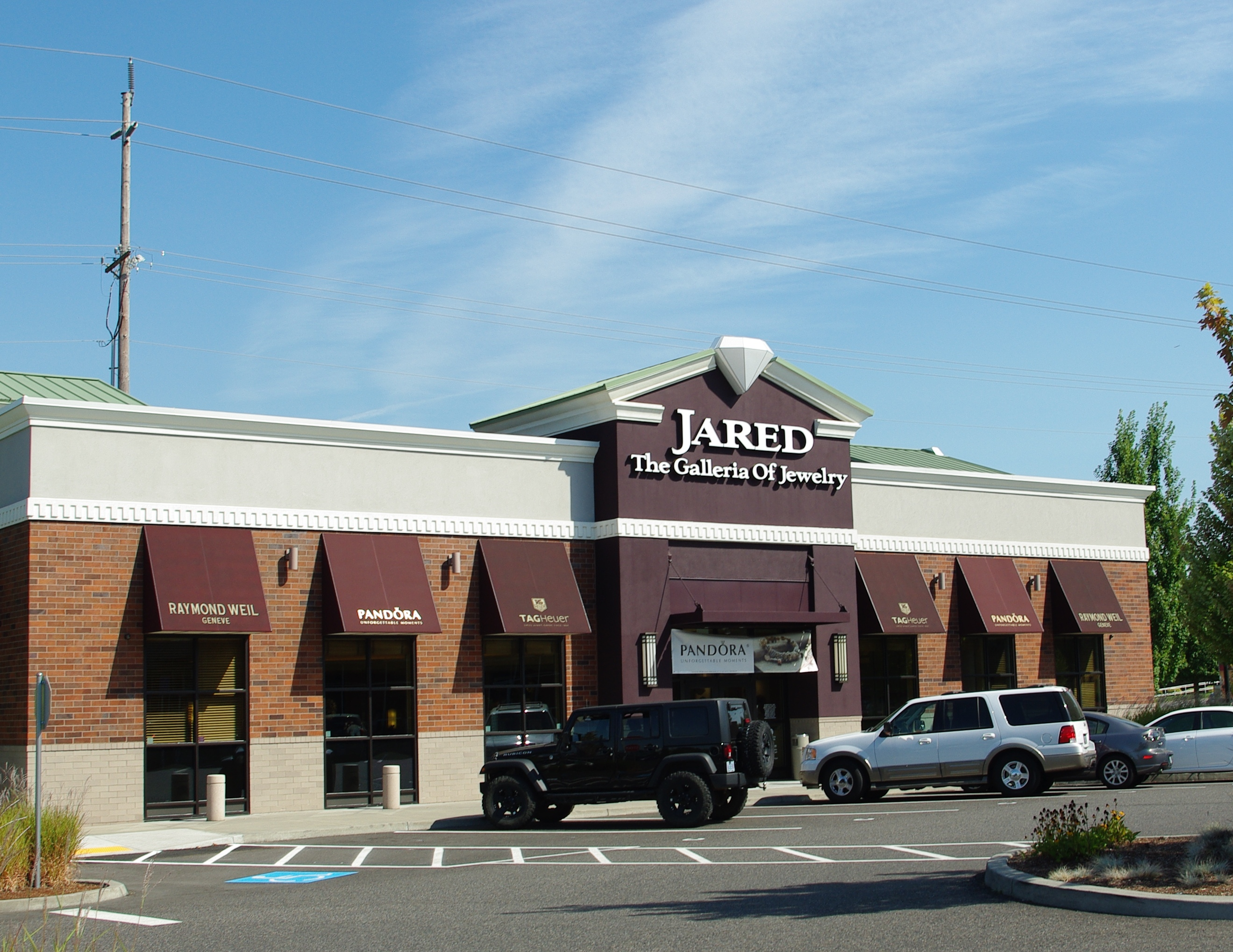 Jared Galleria The of Jewelry store in the Tanasbourne area of Hillsboro, Oregon.